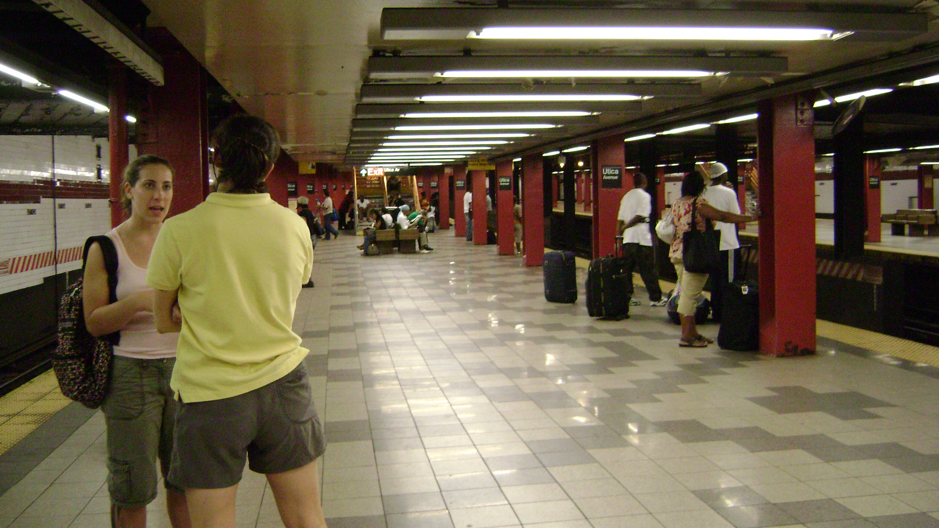 The Utica Avenue station.